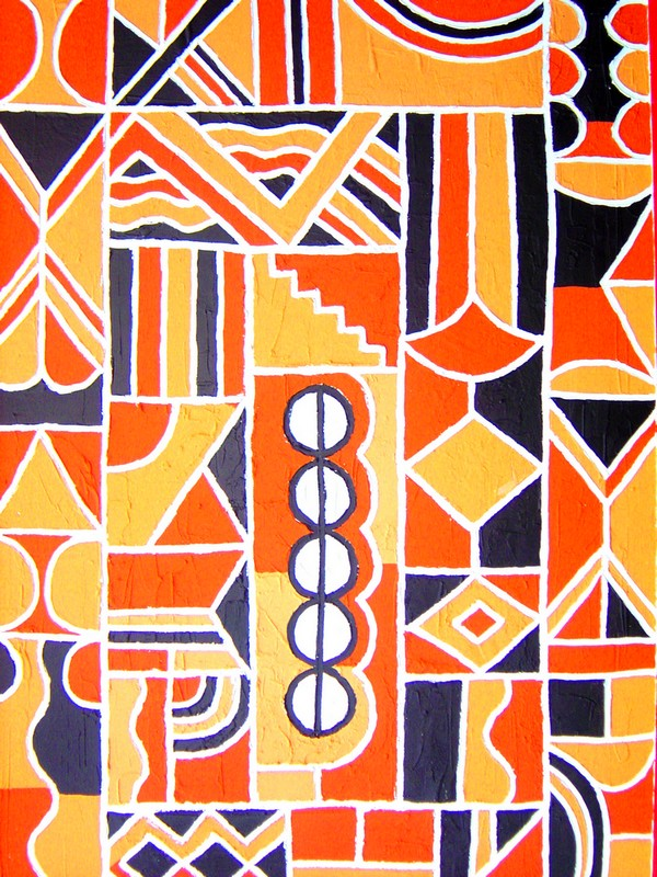 This work is part of the series "Long Way" by the artist Tagirumukiza Innocent